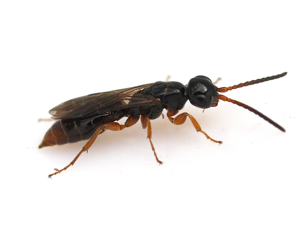 Sierolomorpha canadensis - considered to be a rare wasp - Cross Plains, WI, USA